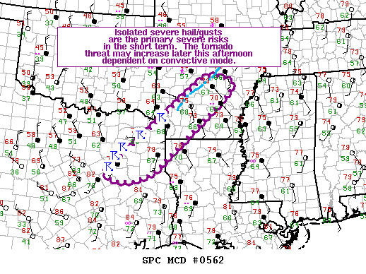 Graphic associated with the example mesoscale discussion